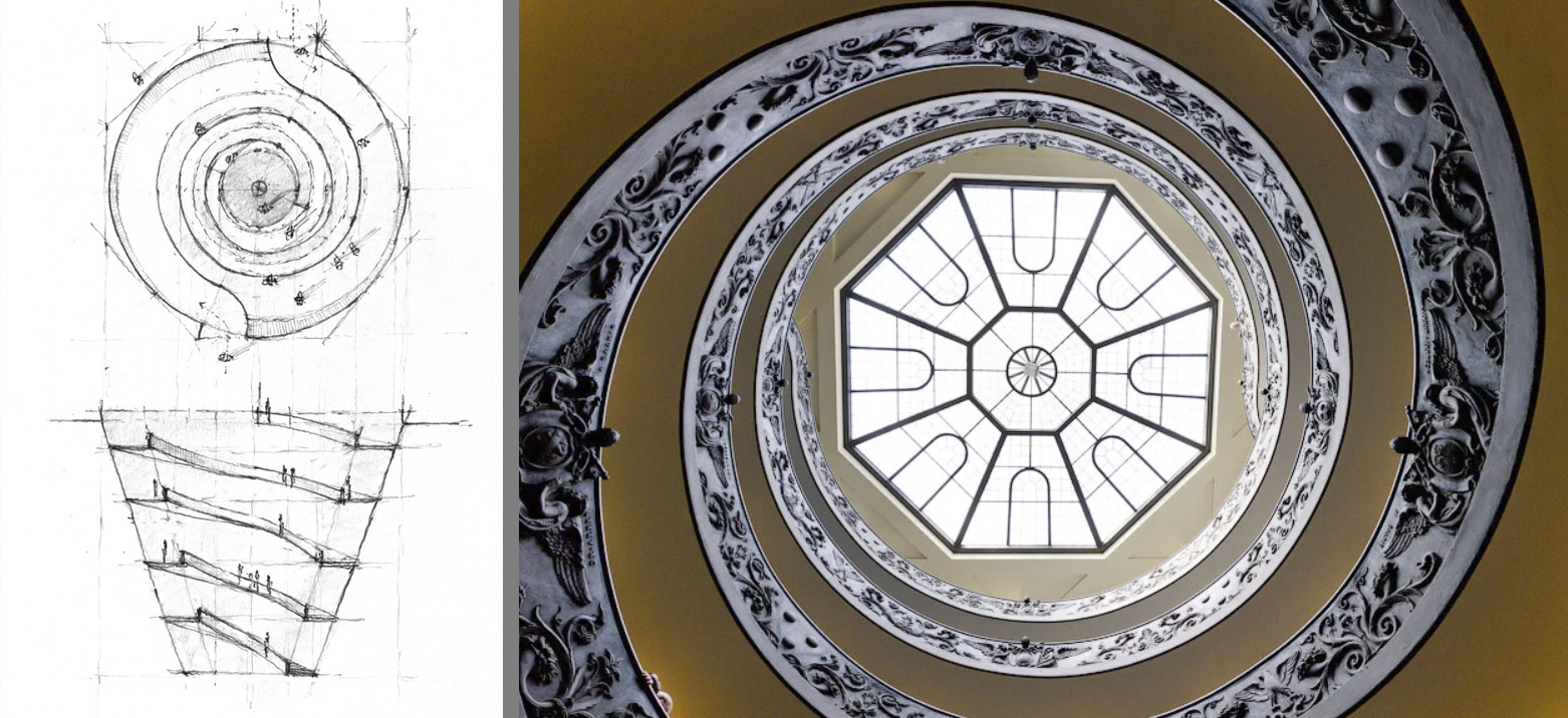 Double spiral and helicoidal flight staircase at the entrance to the Vatican Museums designed by Giuseppe Momo 1932.